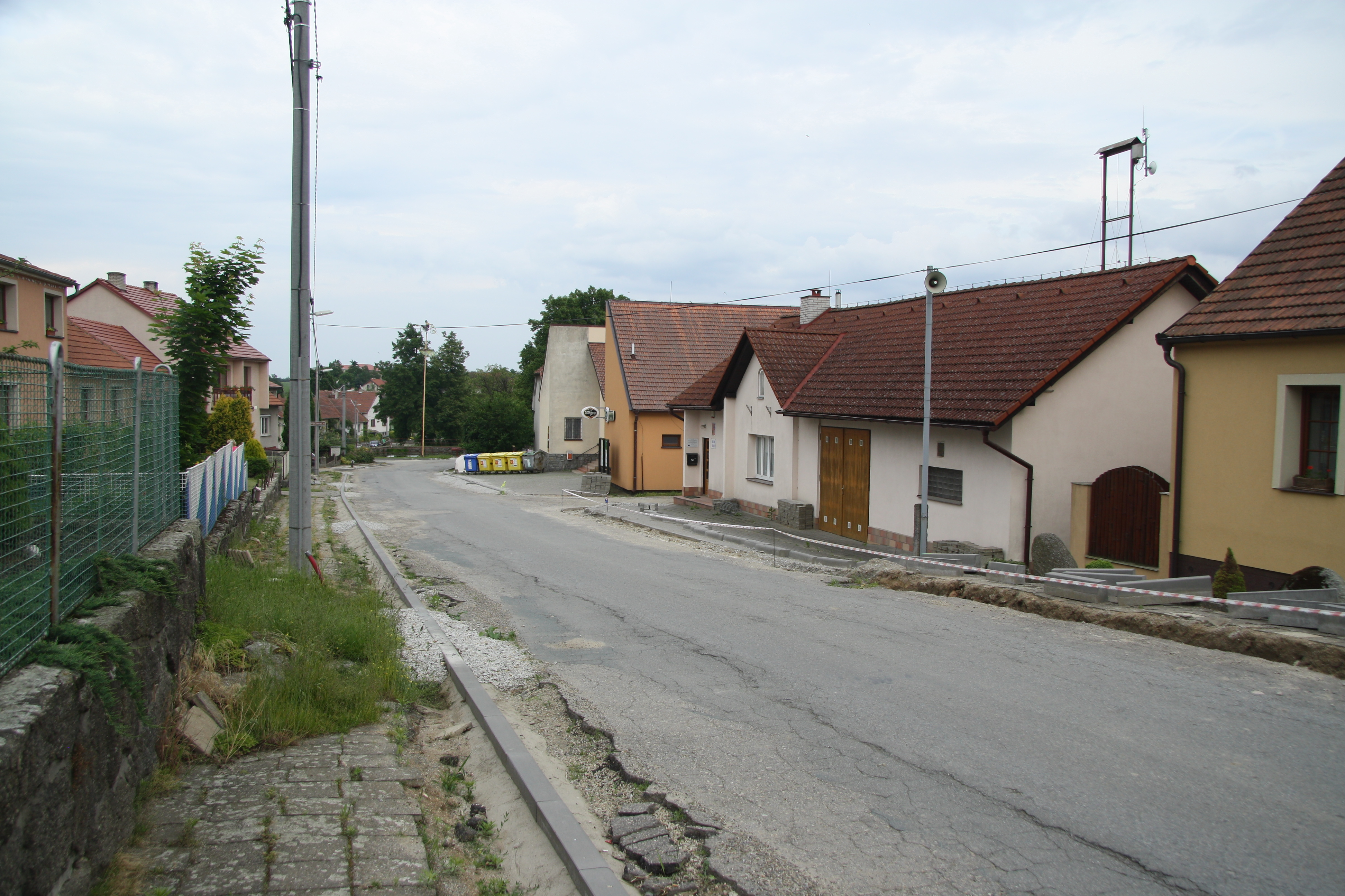 Center of Hodov, Třebíč District.